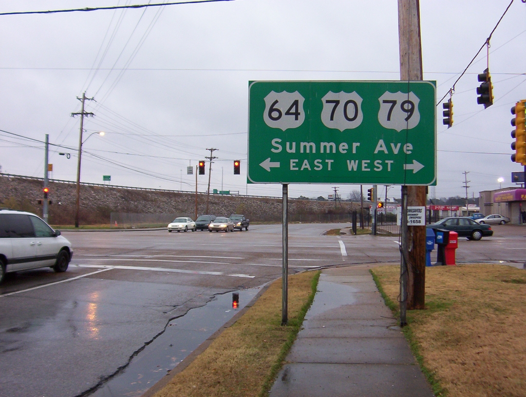 US64/US70/US79 overlap on Summer Ave. in Memphis, Tennessee. Photo taken at White Station at I-40 junction in (Jan. 2008).